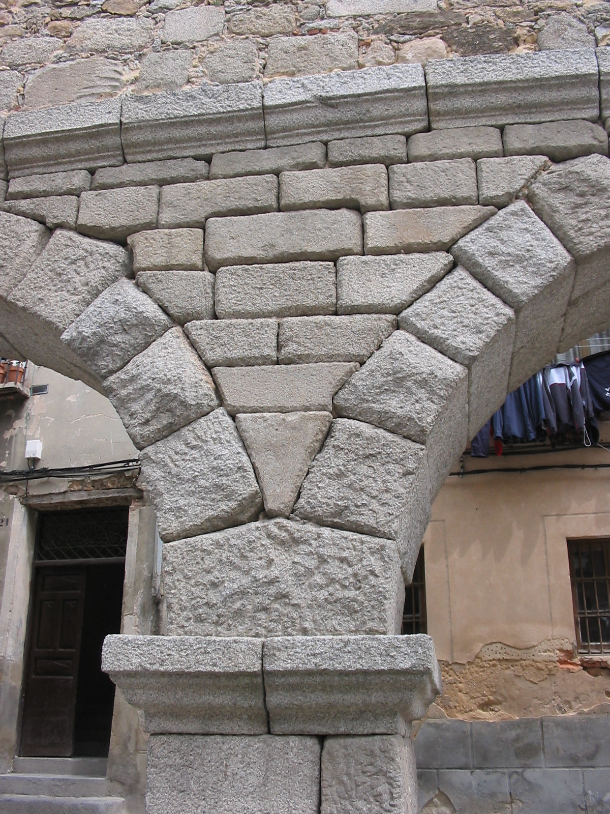 Detail of recovered portions of the Aqueduct of Segovia.